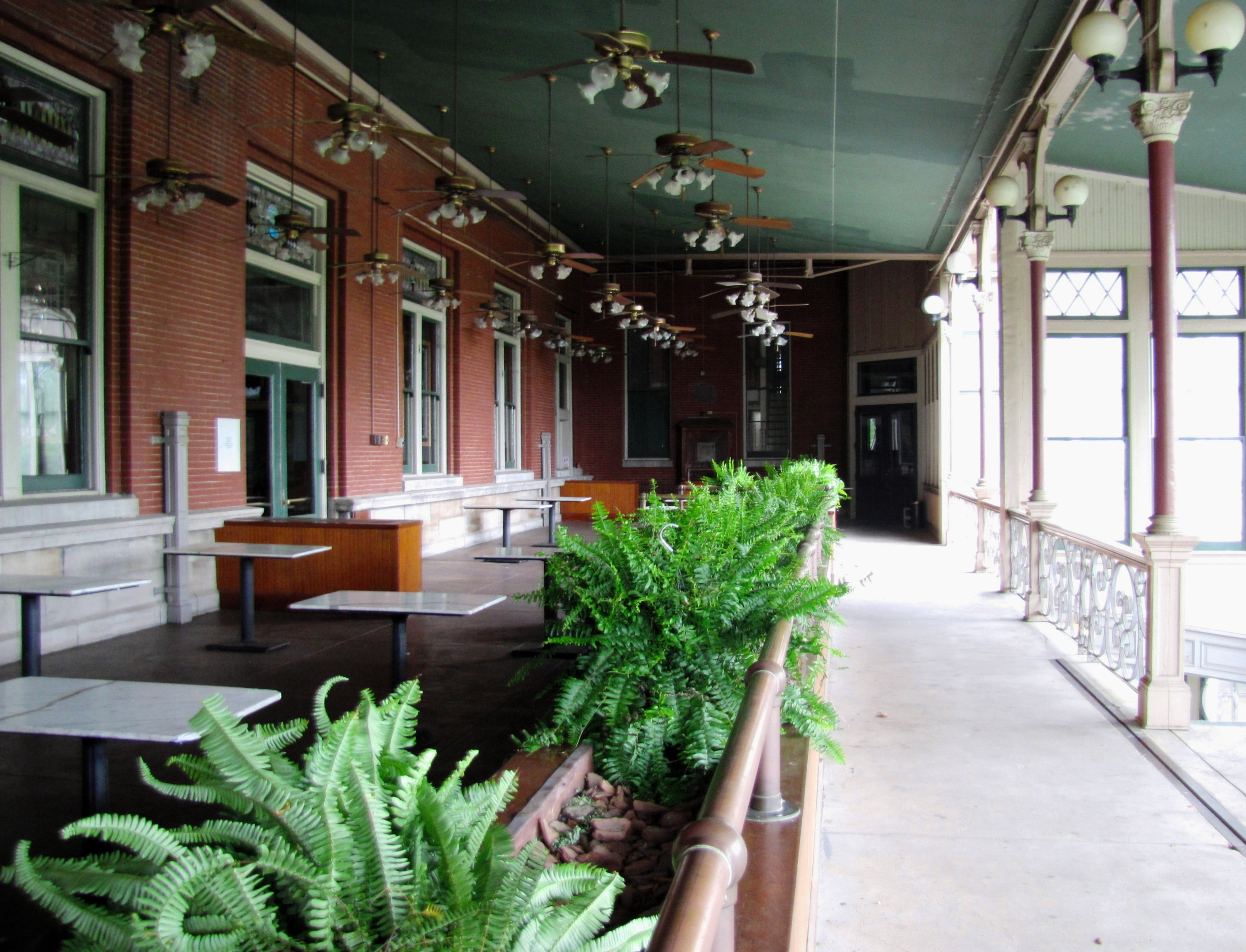 The rear veranda of the L&N Station in Knoxville, Tennessee, USA.